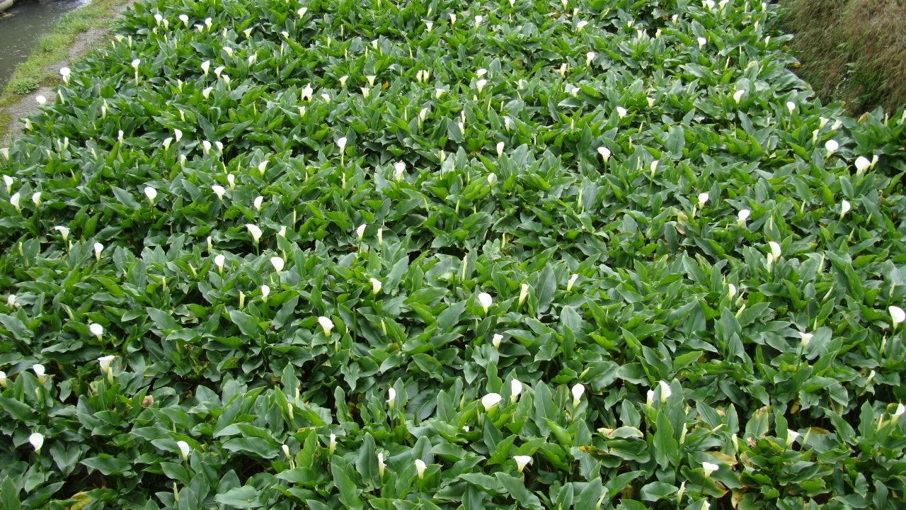 The Jhuzihhu calla lilies Tian at one corner